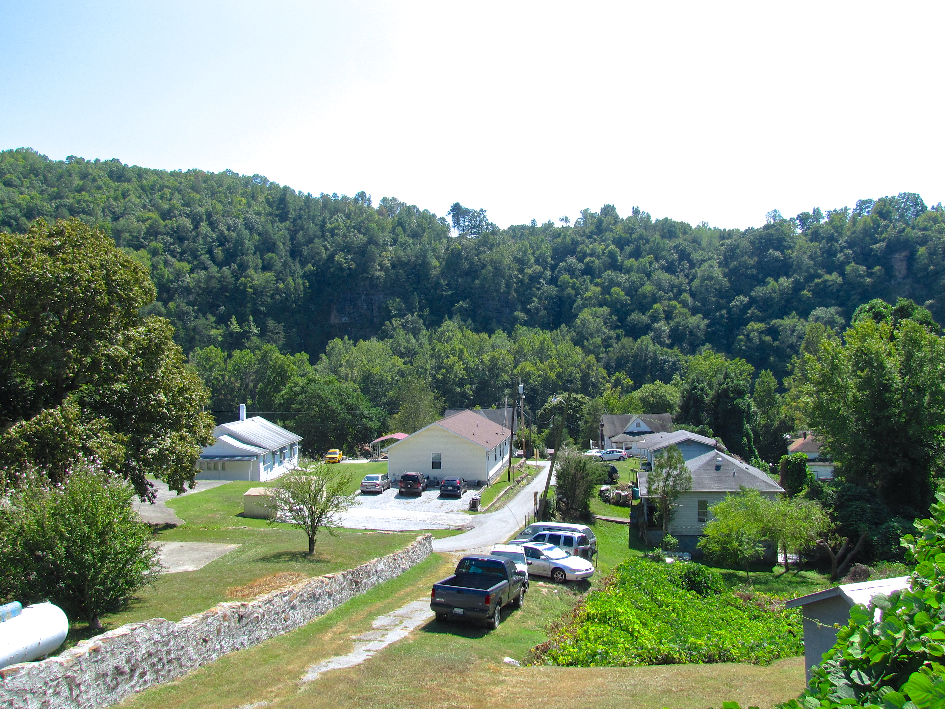 Houses off State Route 299 in Oakdale, Tennessee, United States.